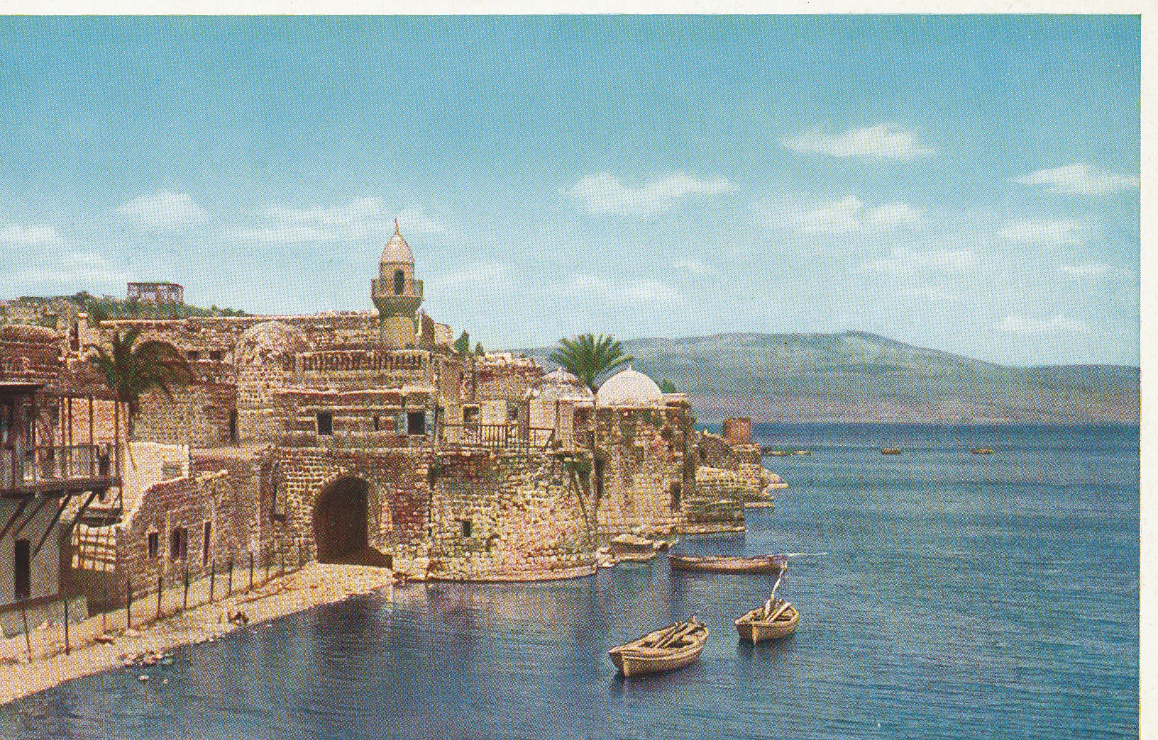 Street at the beach of Tiberias. Tiberlade et Lac. UferstraBe von Tiberias und See Genezareth.